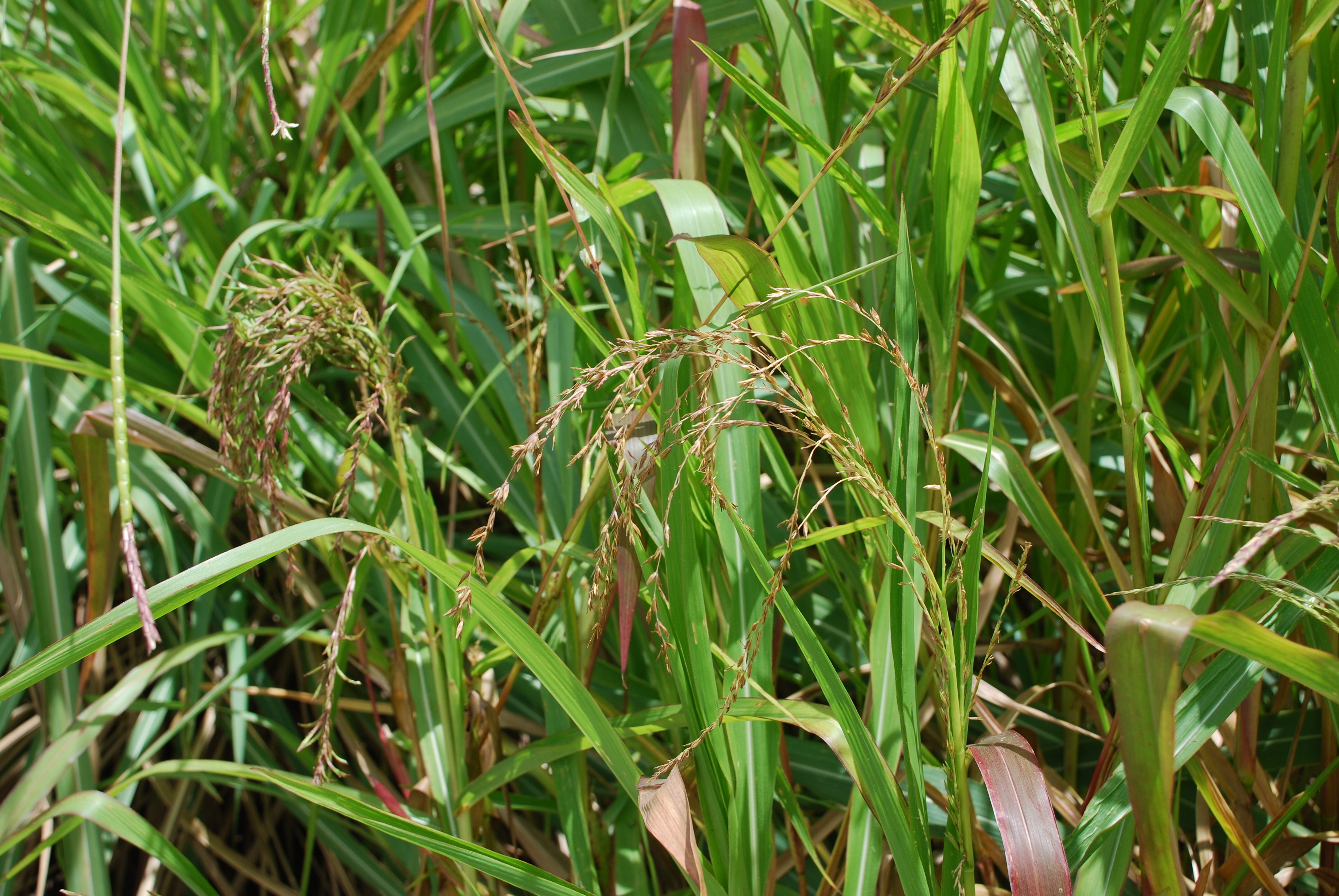 Teosinte, Teocinte or Teocintle (Zea sp.) from the Etnobotanical museum, Oaxaca, México.